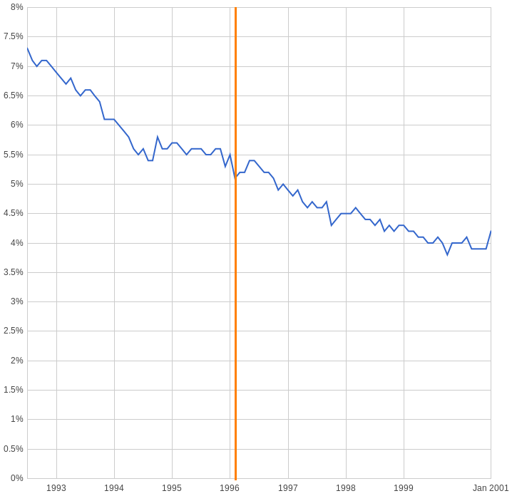 Unemployment rate in the United States from January 1993 to January 2001. The orange line indicates the Personal Responsibility and Work Opportunity Reconciliation Act of 1996. Data from U.S. Bureau of Labor Statistics